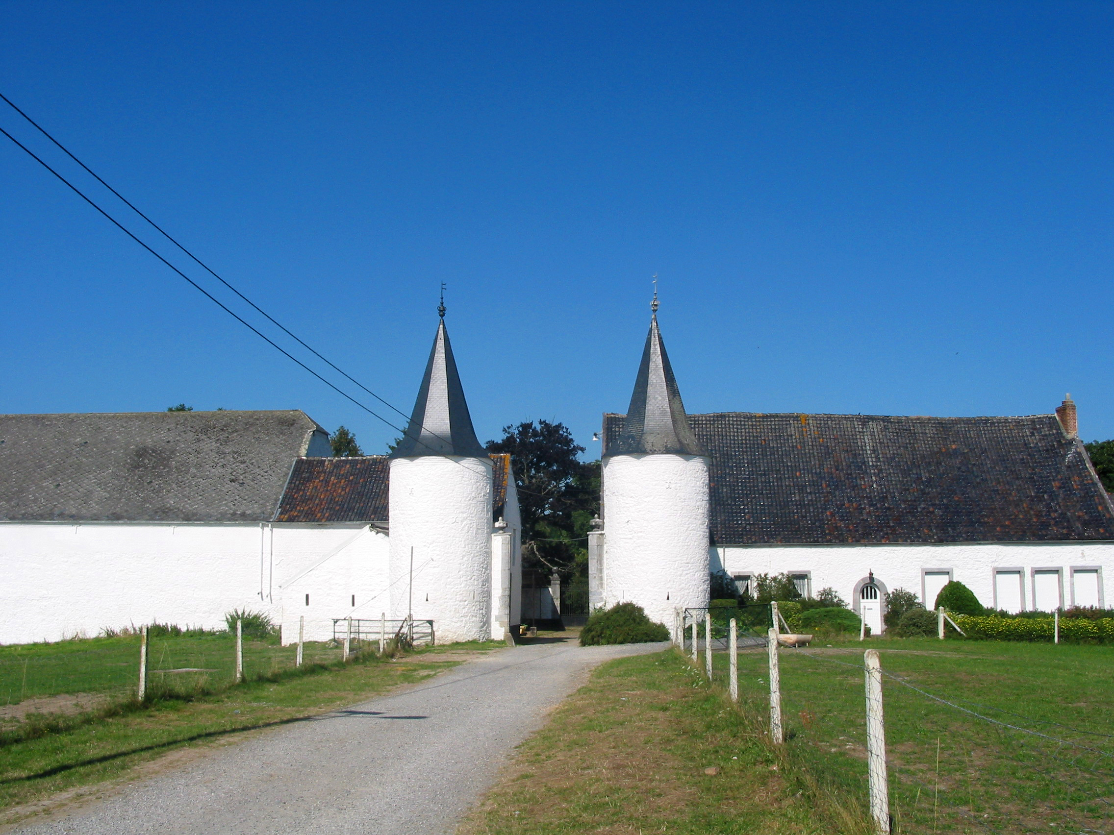 Montignies-Saint-Christophe (Belgium), castle farm (XVII/XIXth centuries).